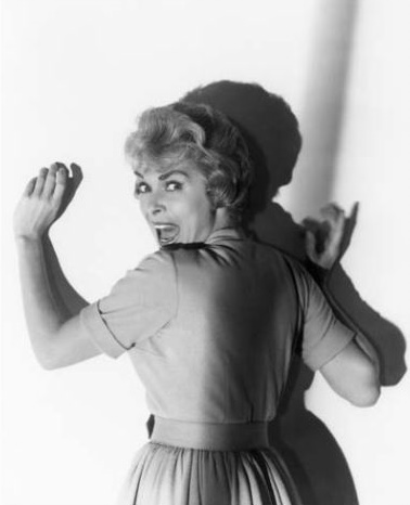 Promotional still of Janet Leigh from the 1960 film Psycho. See also film still. No copyright notice.